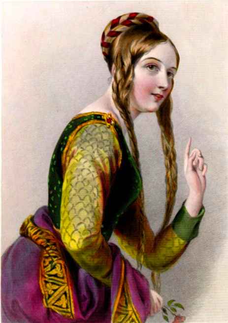 Eleanor of Aquitaine, Queen of England